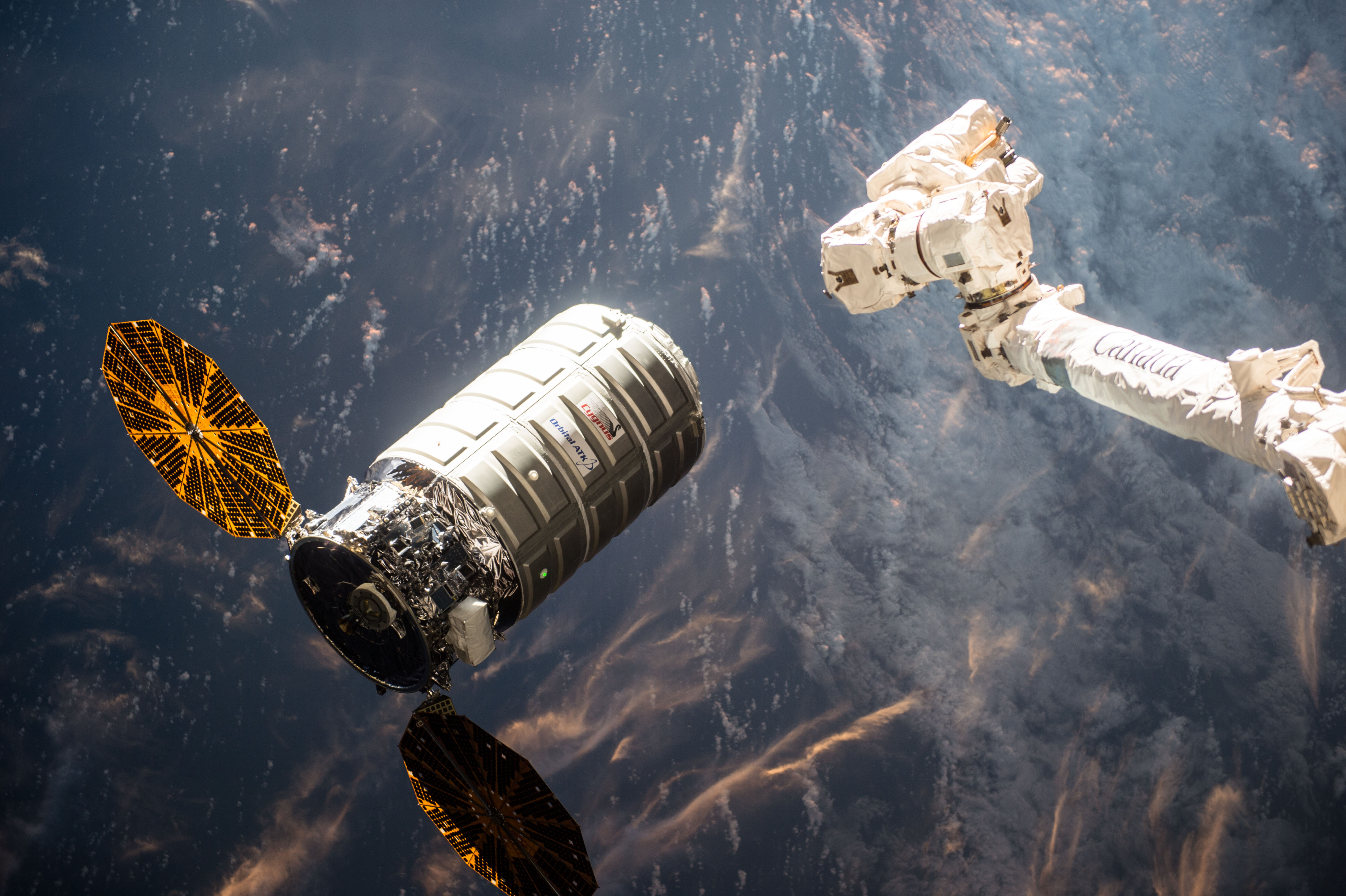 The Orbital ATK Cygnus cargo ship arrives at the International Space Station. It has now docked on the station's Earth-facing port of the Unity module via the CanadArm 2 robotic arm. The spacecraft's arrival supports the crew members' research "off the Earth to benefit the Earth". The Cygnus is delivering more than 7,700 pounds of science and research, crew supplies and vehicle hardware to the orbital laboratory to support dozens of approximately 250 science and research investigations that will occur during Expeditions 47 and 48. Beginning with this mission, Cygnus is equipped with a NanoRacks External Cygnus Deployer for CubeSats that will provide opportunities for small satellites to be deployed from Cygnus after the vehicle departs from the ISS.